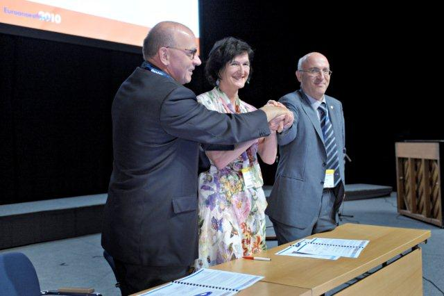 The signing of the Declaration is celebrated by Professor Paolo Pelosi, President of the European Society of Anaesthesiology, Dr Jannicke Mellin Olsen, President of the European Board of Anaesthesiology, and Professor Hugo van Aken, representing the national anaesthesia societies of Europe